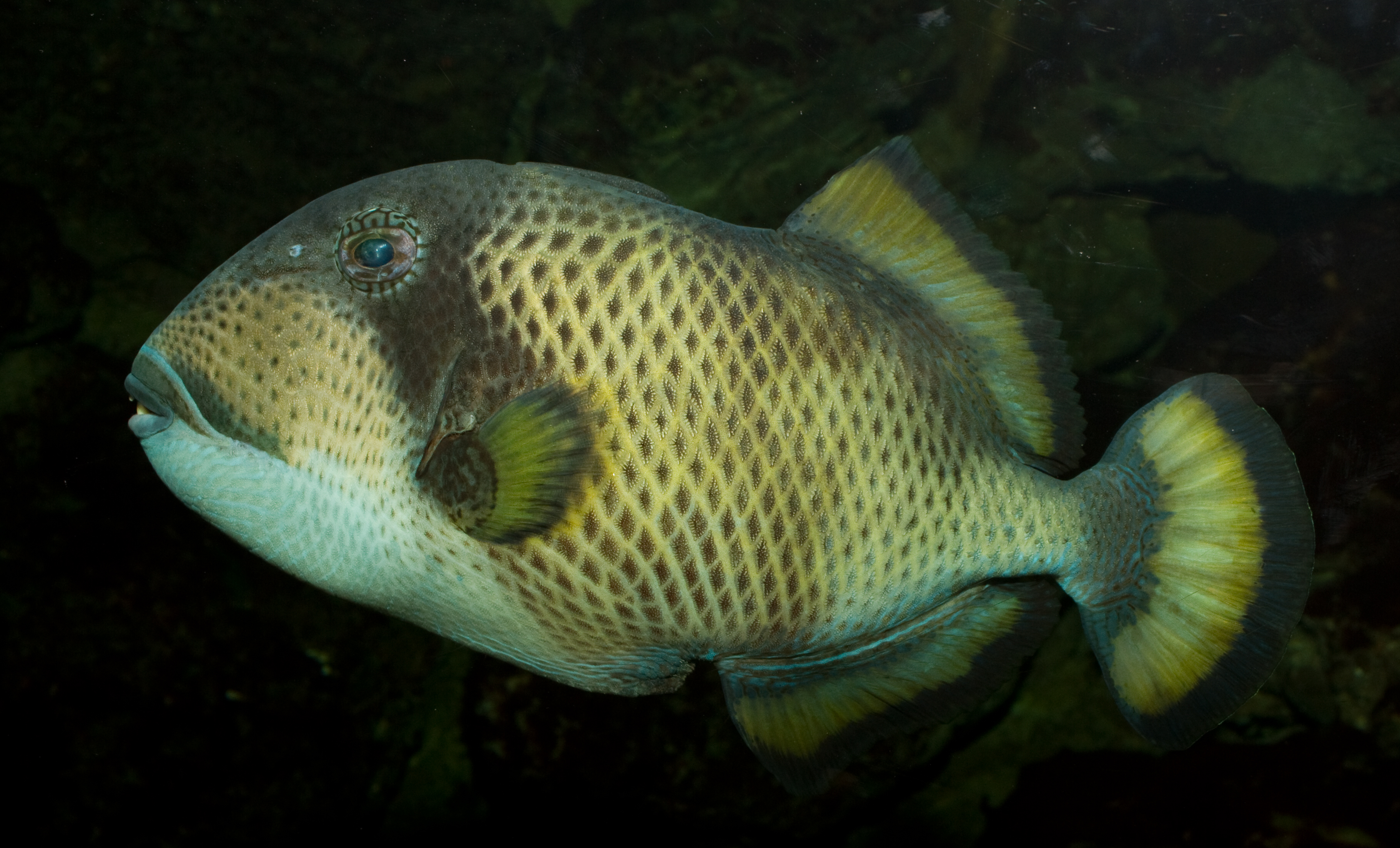 The titan triggerfish, giant triggerfish or moustache triggerfish (Balistoides viridescens) is a large species of triggerfish found in lagoons and at reefs in most of the Indo-Pacific, though it is absent from Hawaii. With a length of up to 75 centimetres (30 in),[1] it is the largest species of triggerfish in its range (the stone triggerfish, Pseudobalistes naufragium, from the east Pacific is larger).[2]